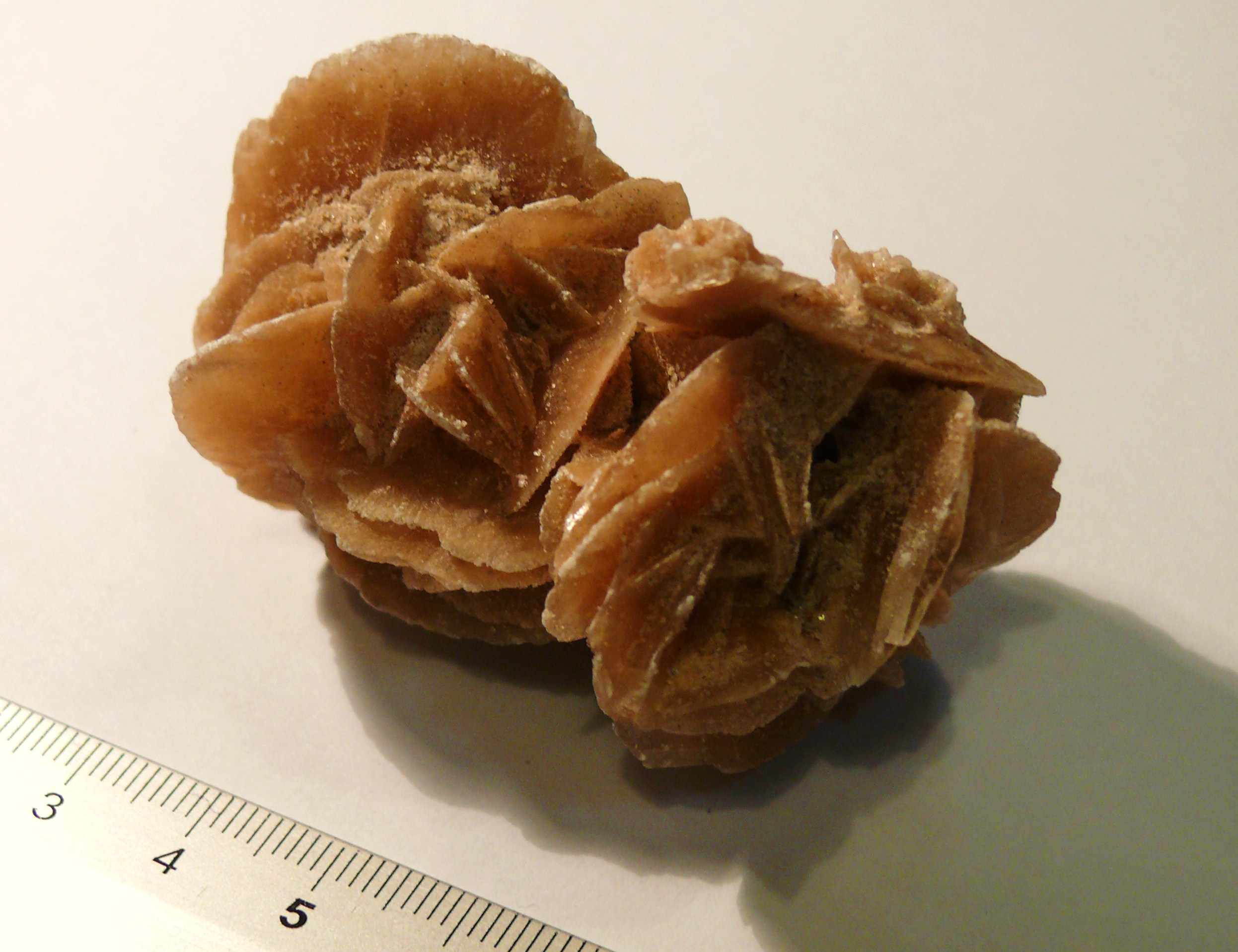 rose desert from Tunisia